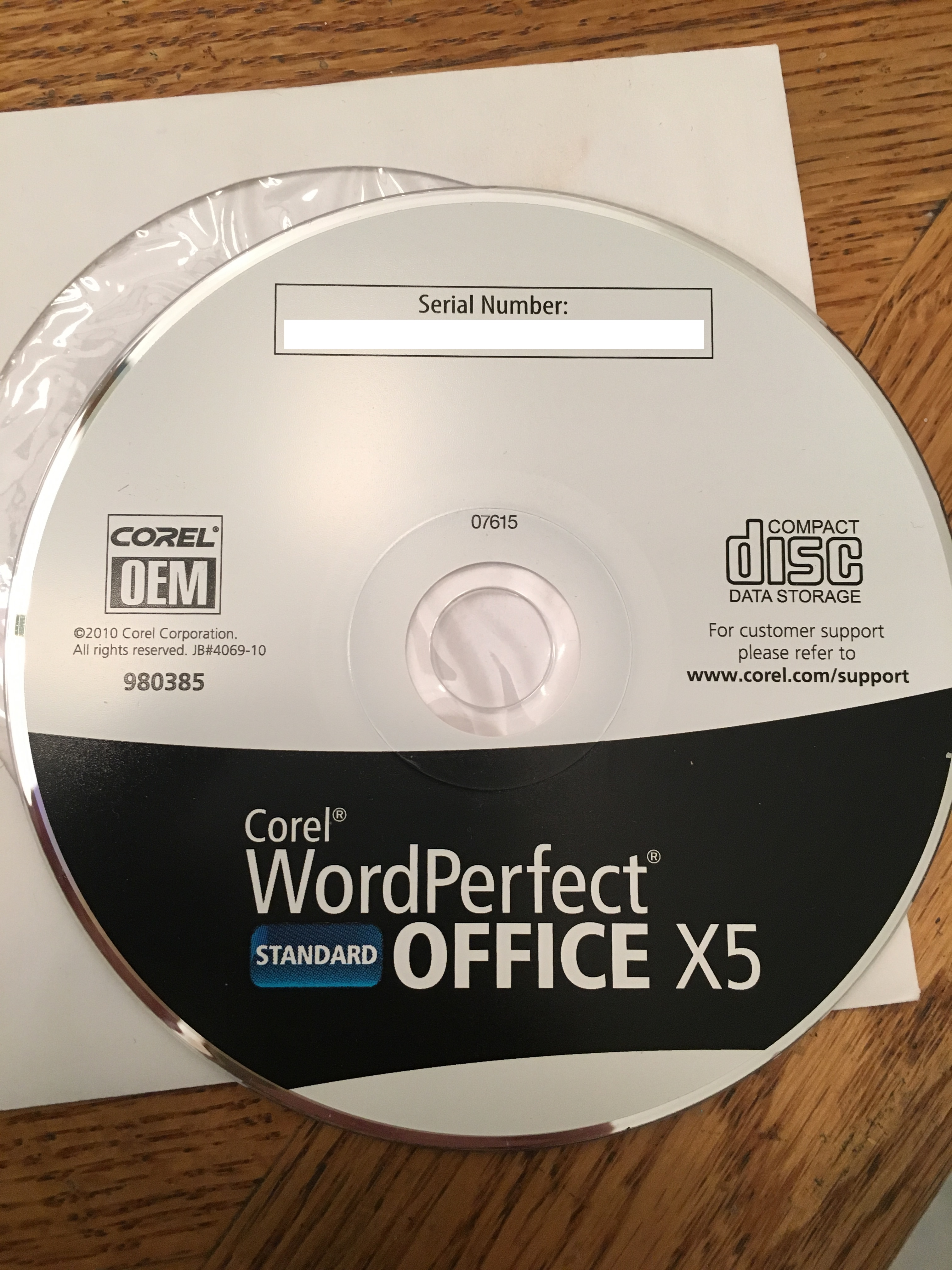 Distribution CD for Corel WordPerfect Office, Standard Edition, version X5. The disc has copyright date of 2010 and is marked for OEM use.